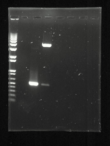 A 1% agarose gel following agarose gel electrophoresis on UV light box Gel from a research project on hepatitis B virus Regulatory genomics research group at the University of Otago [1]